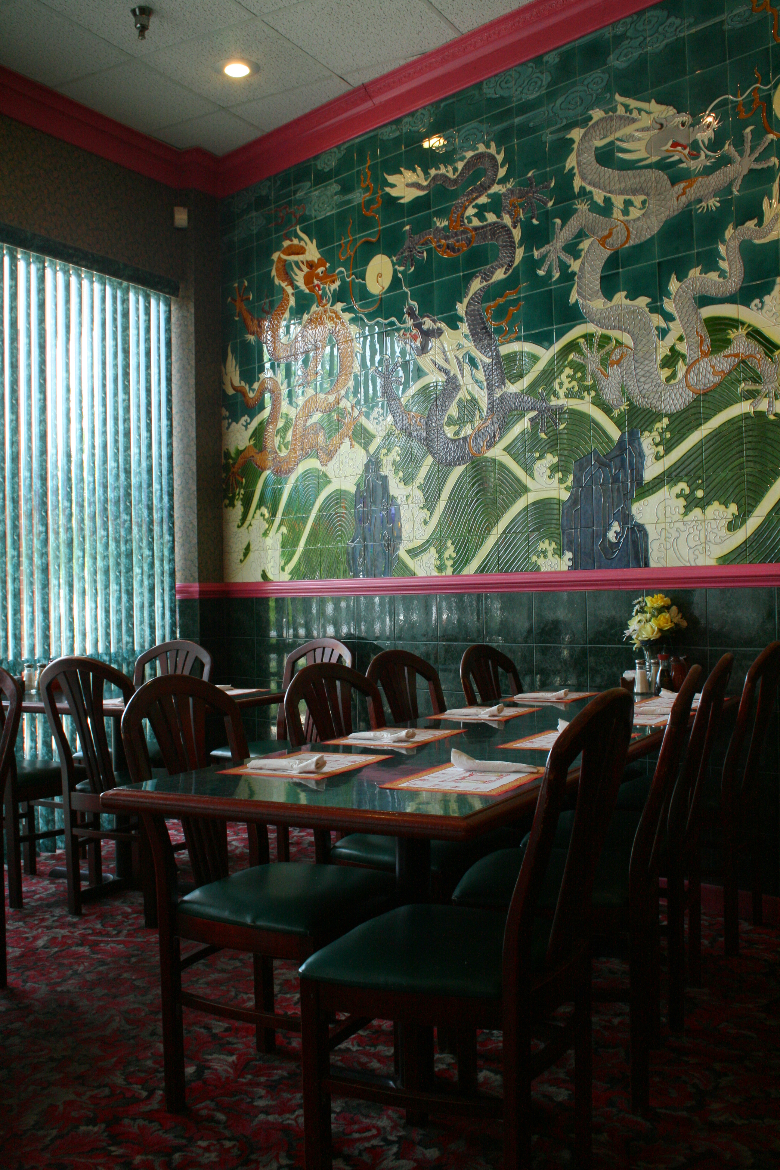 Dining accomodations at Orient Garden, a Chinese restaurant in Durham, North Carolina.